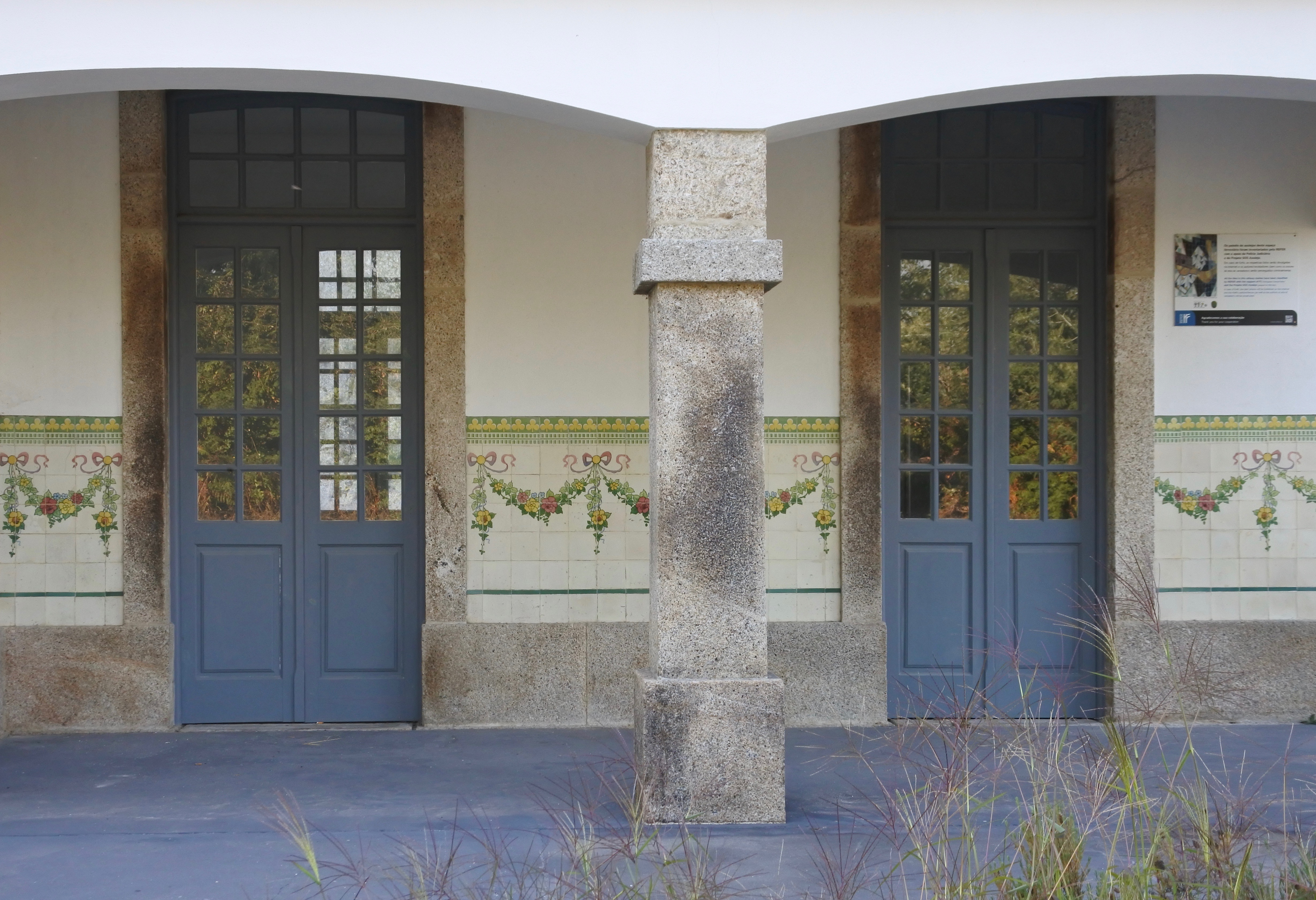 Former Gatão train station at the Tâmega cyclepath